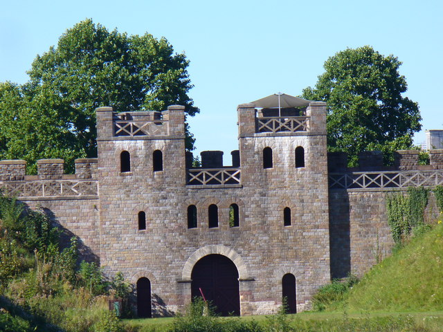 Cardiff Castle North Gate The rectangular walls follow the course of the former Roman Camp ramparts. The North Gate has been reconstructed in Roman style.